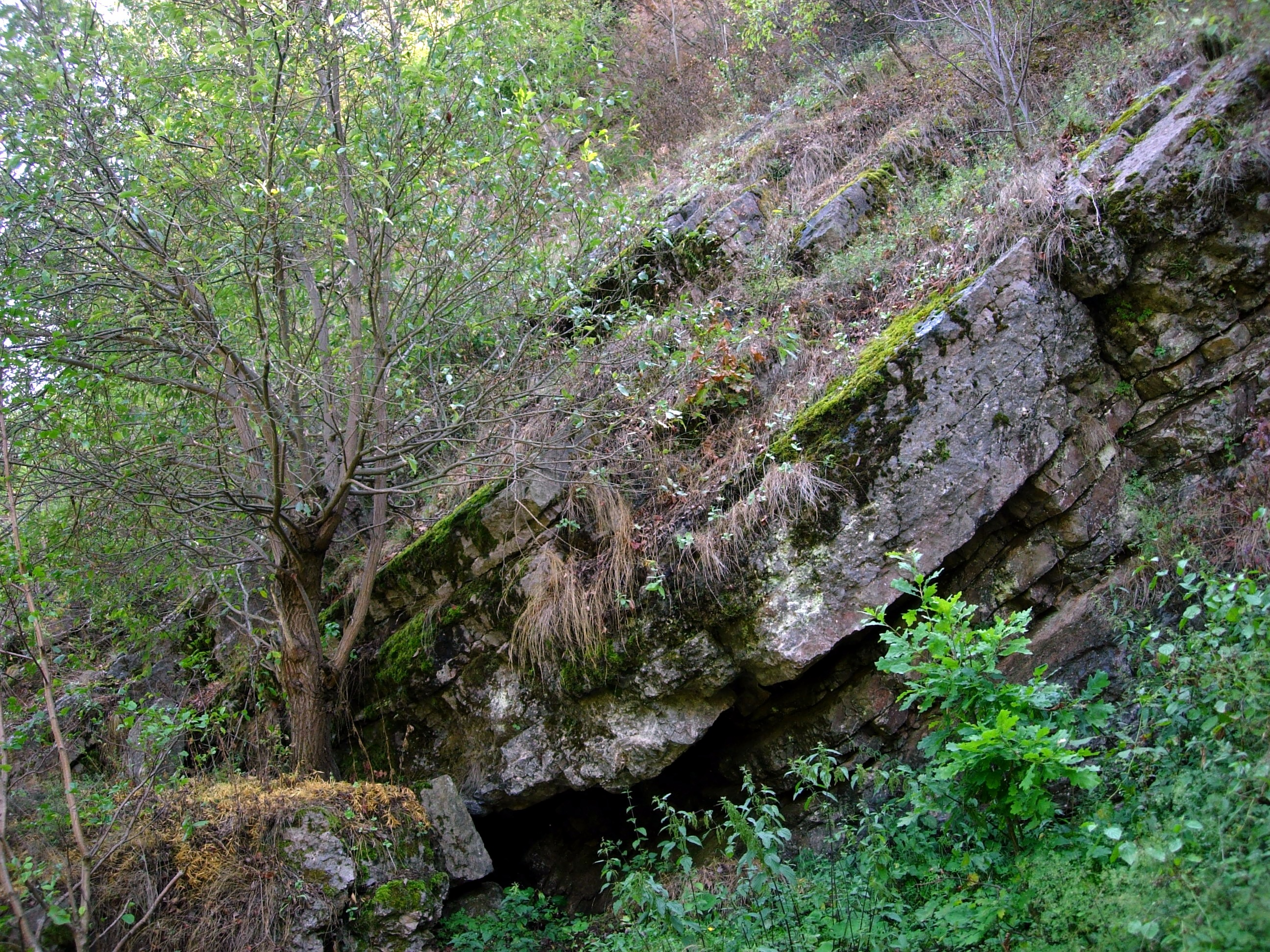 Nature reserve "Wąwóz w Skałach" in Poland, the south slope of the ravine